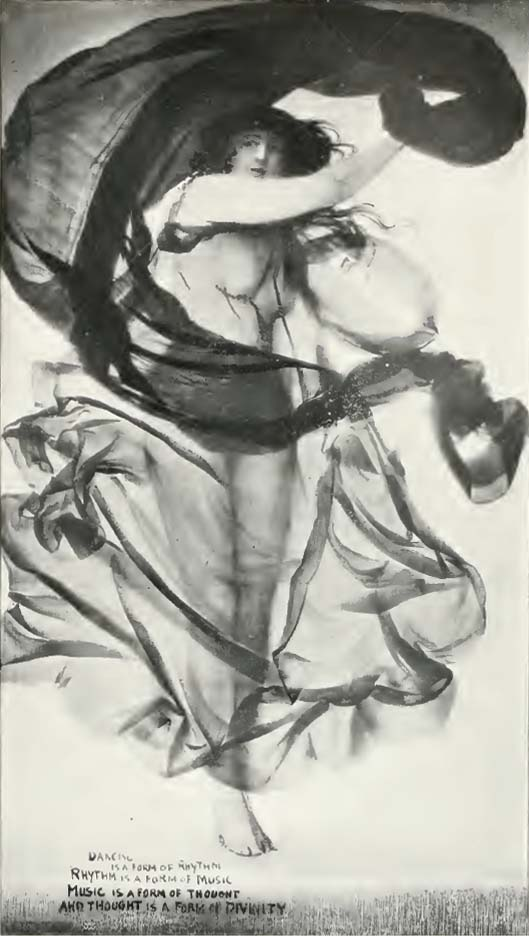 The Dancing Girl (painting and silk cloth) in Lululaund mansion. The inscription says: Dancing is a form of rhythm Rhythm is a form of music Music is a form of thought And thought is a form of divinity.